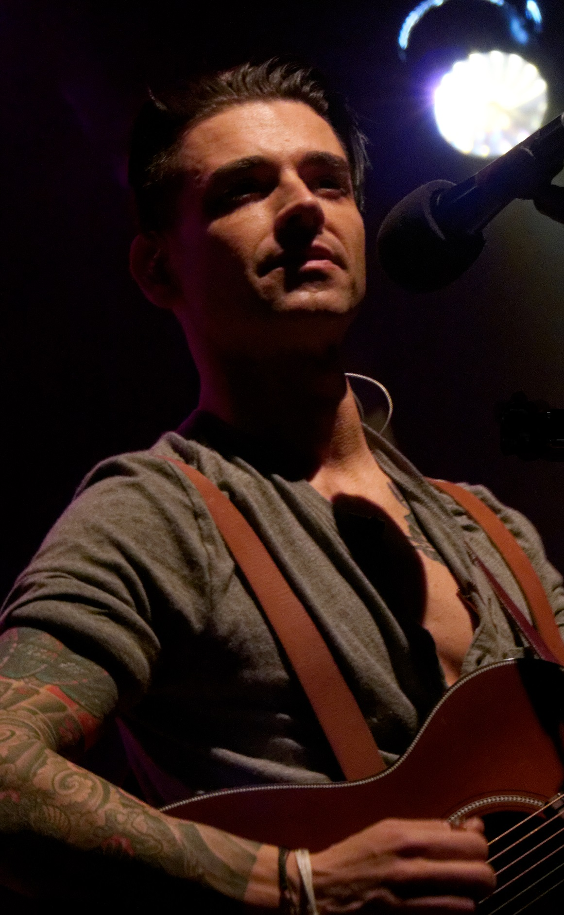 Chris Carrabba performing with Twin Forks at the El Rey in 2015